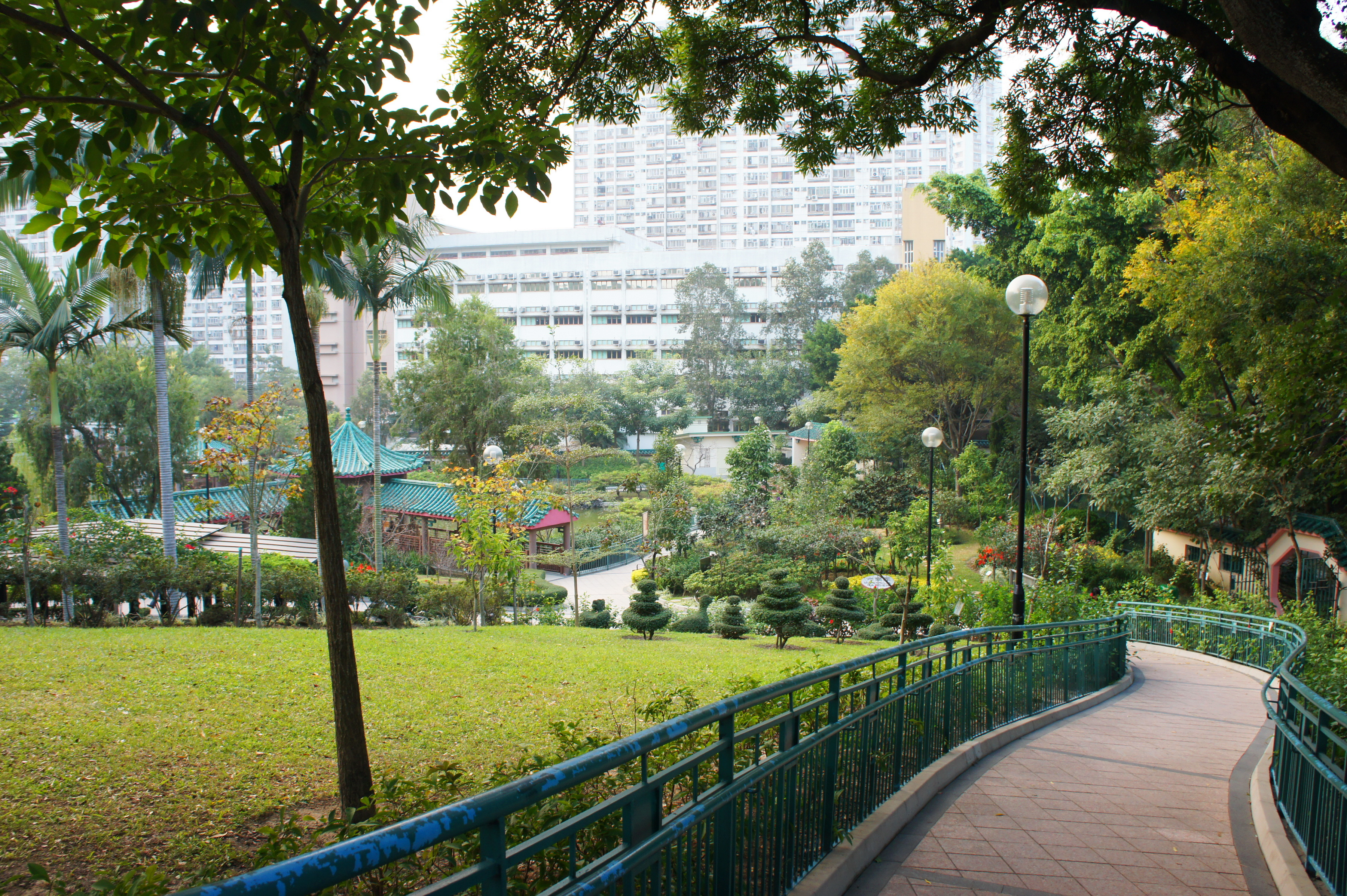 Fanling Hong Lok Park, Fanling, New Territories, Hong Kong. Viewing from the Hilltop Pavilion.